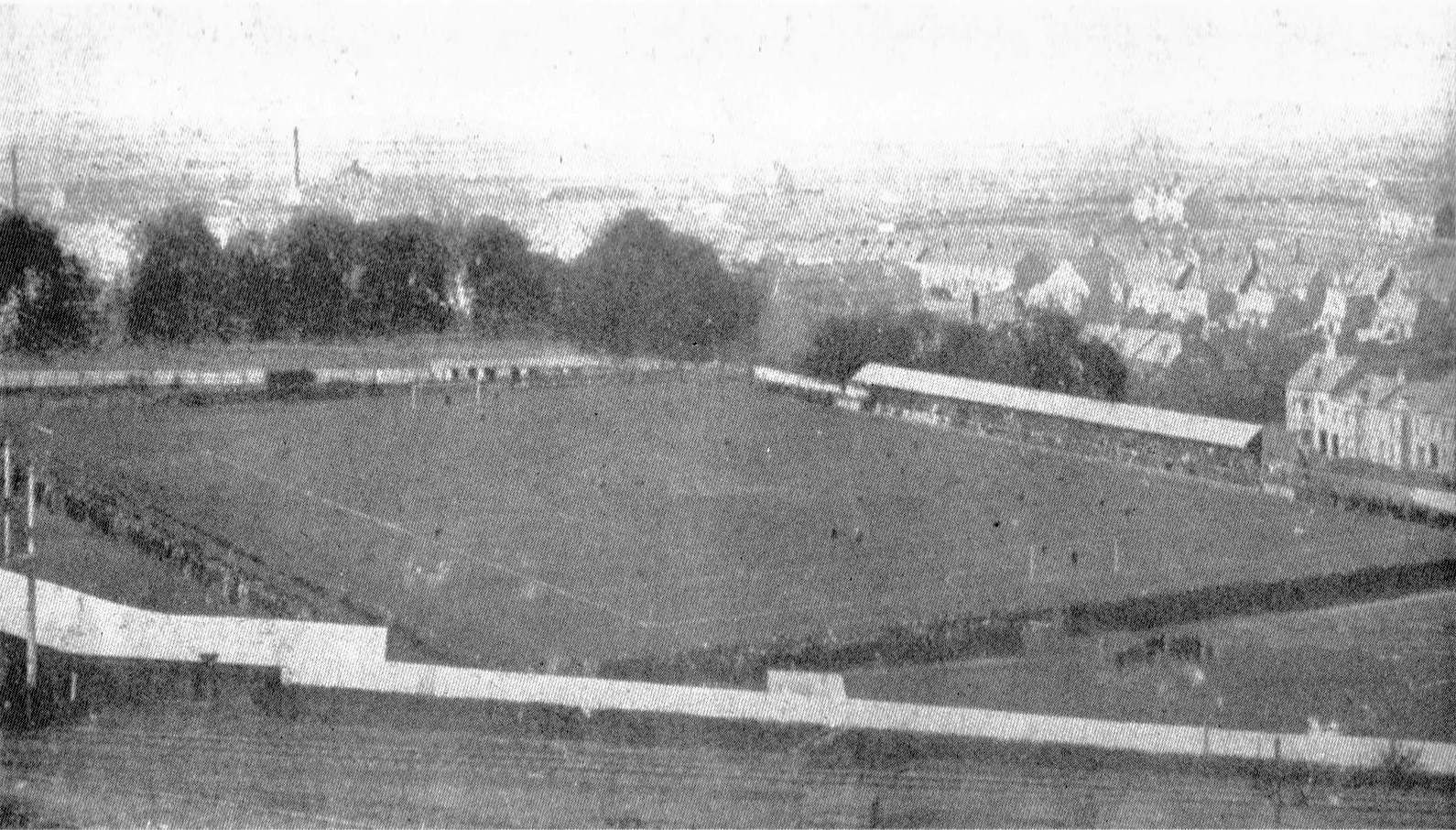 Dunstable Road, former home of Luton Town F.C.